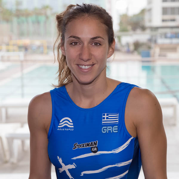 Alkisti Avramidou in Barcelona on April 28th 2015